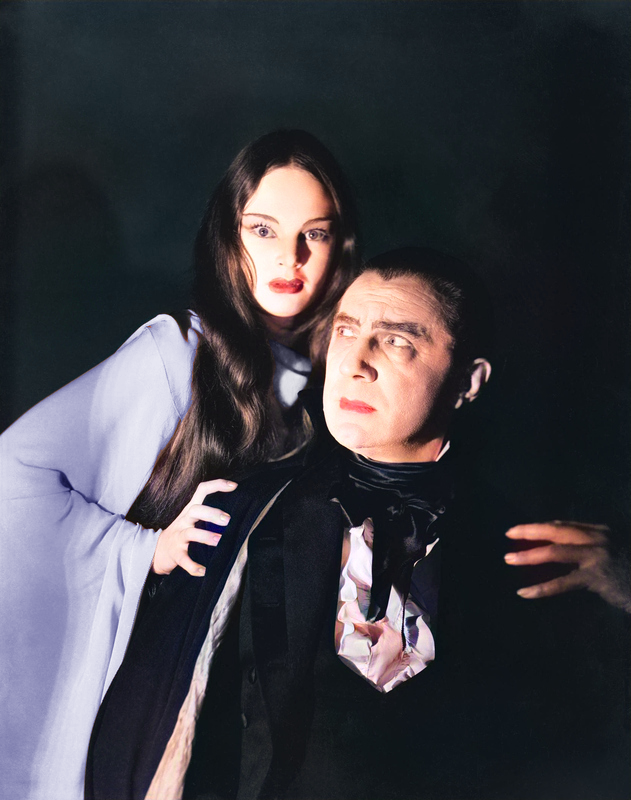 Colorized publicity shot featuring Bela Lugosi and Carroll Borland in Mark of the Vampire (MGM, 1935). Image is assumed to be in the public domain as no copyright notice has been attached.